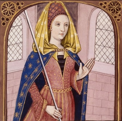 Hecuba, queen of Troy and wife of Priam.